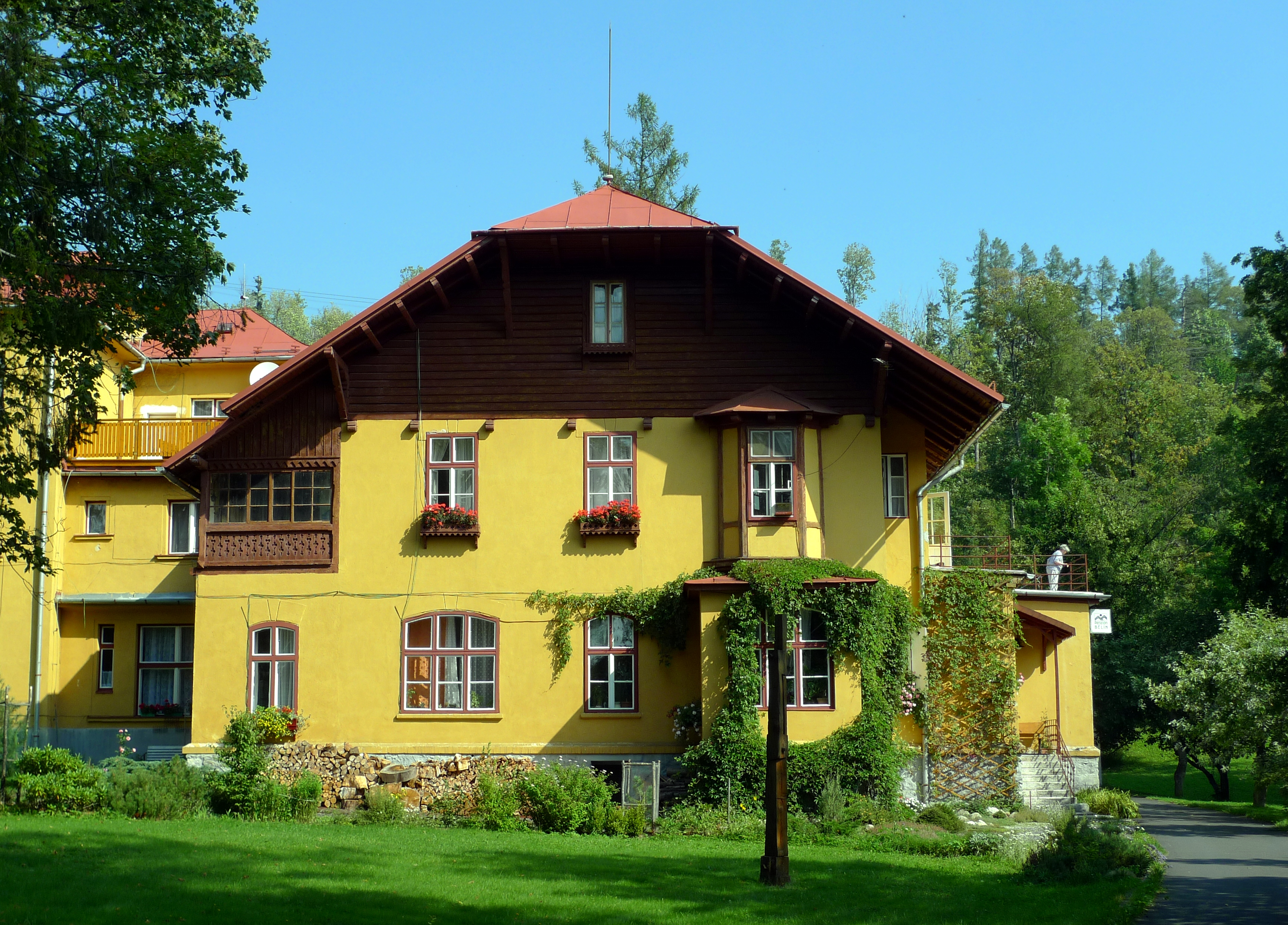 Vila Bělín in Tatranská Lomnica in Slovakia. Česky: Vila Bělín v Tatranské Lomnici na Slovensku.